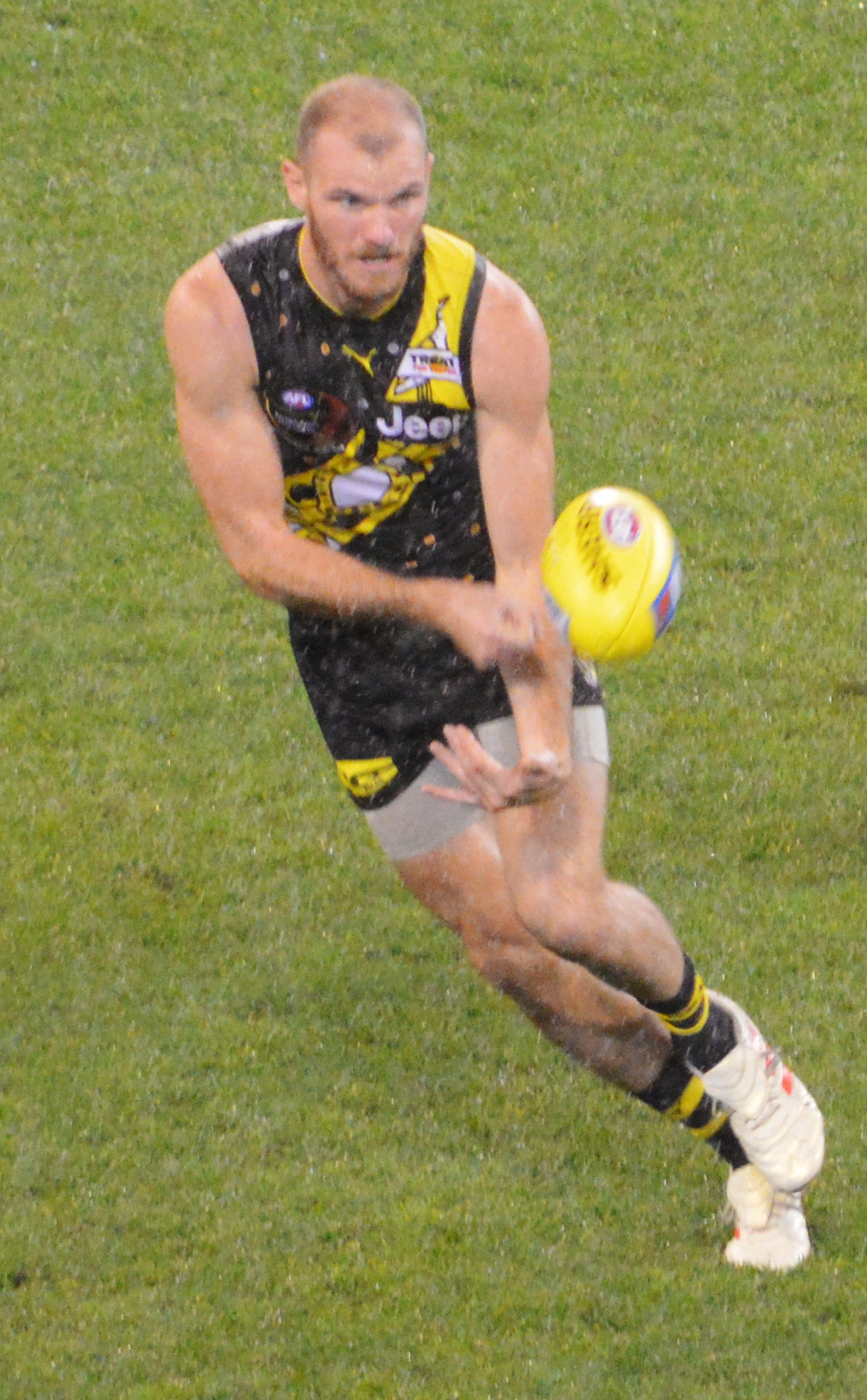 Kamdyn McIntosh with Richmond in the round 10 Dreamtime at the 'G AFL match against Essendon at the MCG on 25 May 2019.